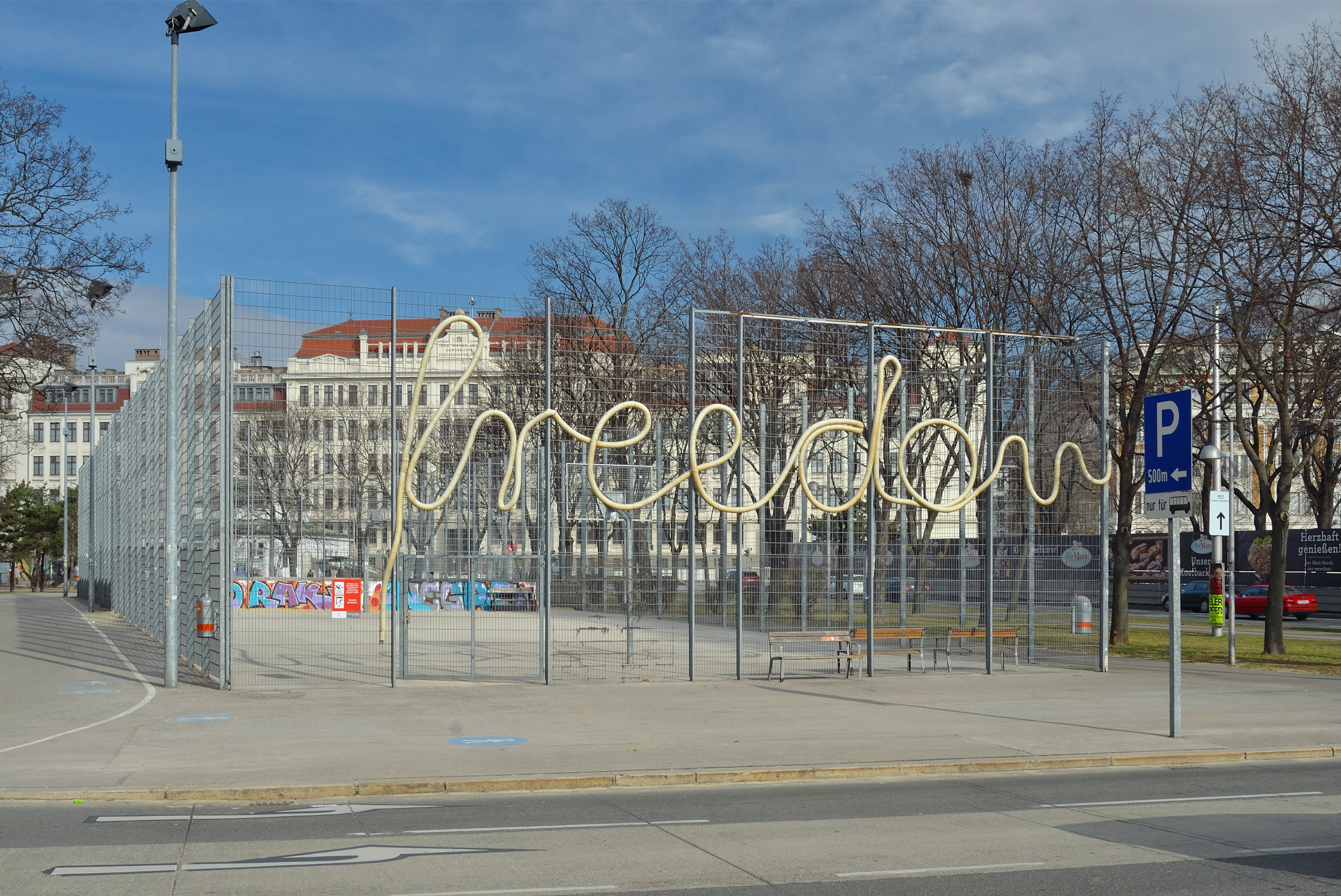 freedom by artist collective Assocreation at a basketball cage at the Gaudenzdorfer Gürtel, Vienna.